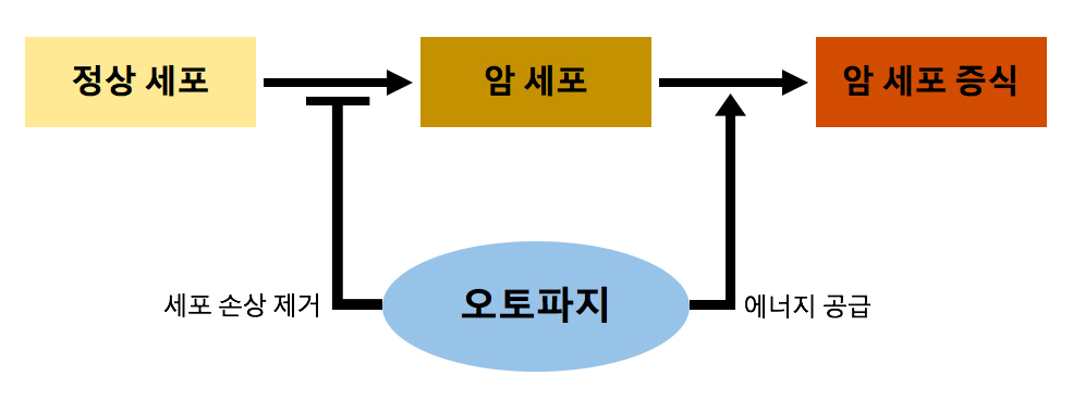 This image shows how autophagy can act as tumor suppressor or promoting factor.